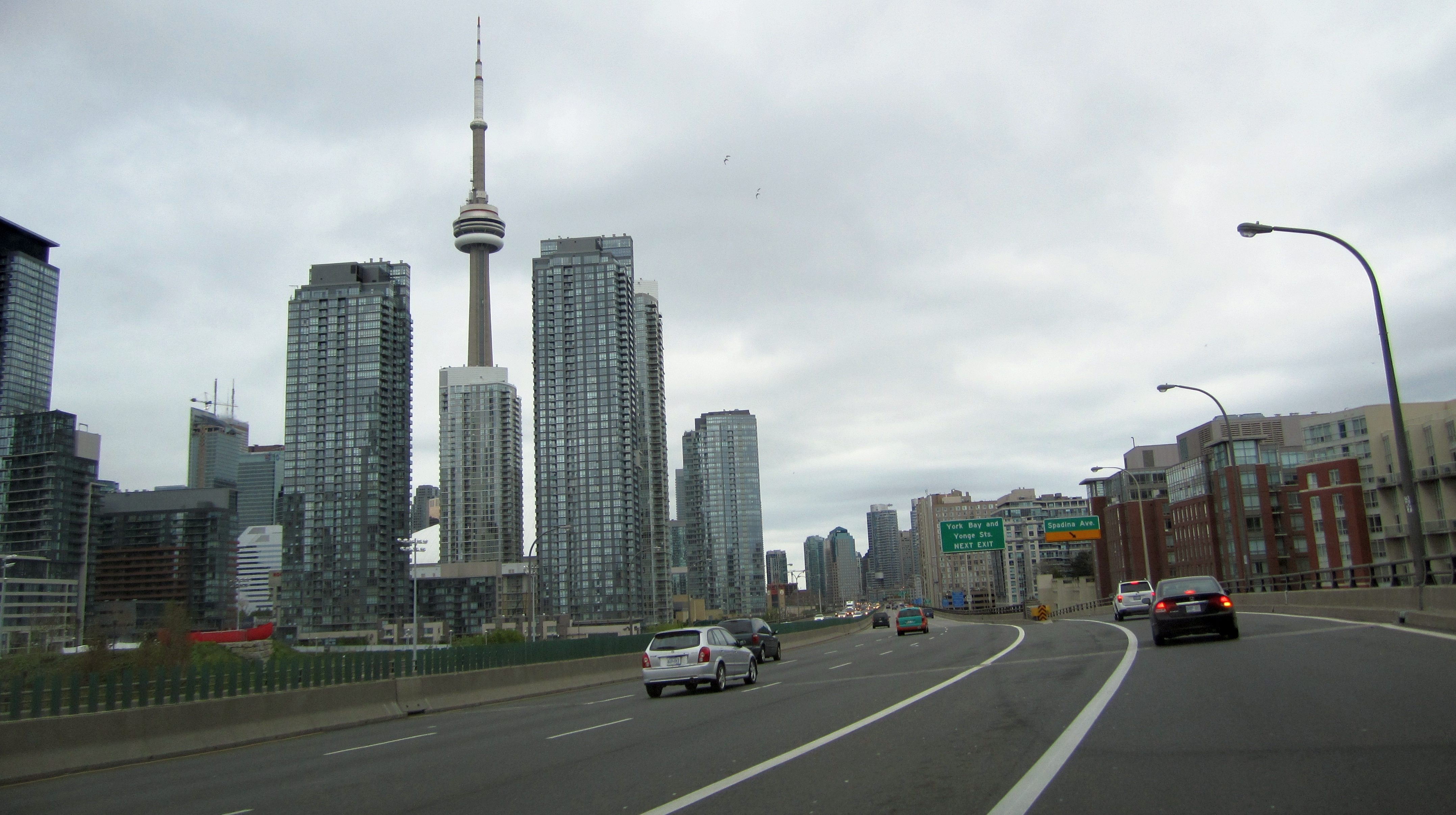 Looking towards the CN tower from the Gardiner Expressway.